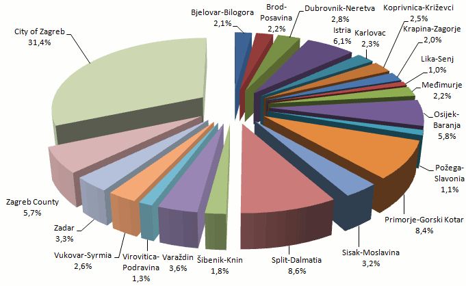 Share of county GDP in Croatia's GDP - 2009 data